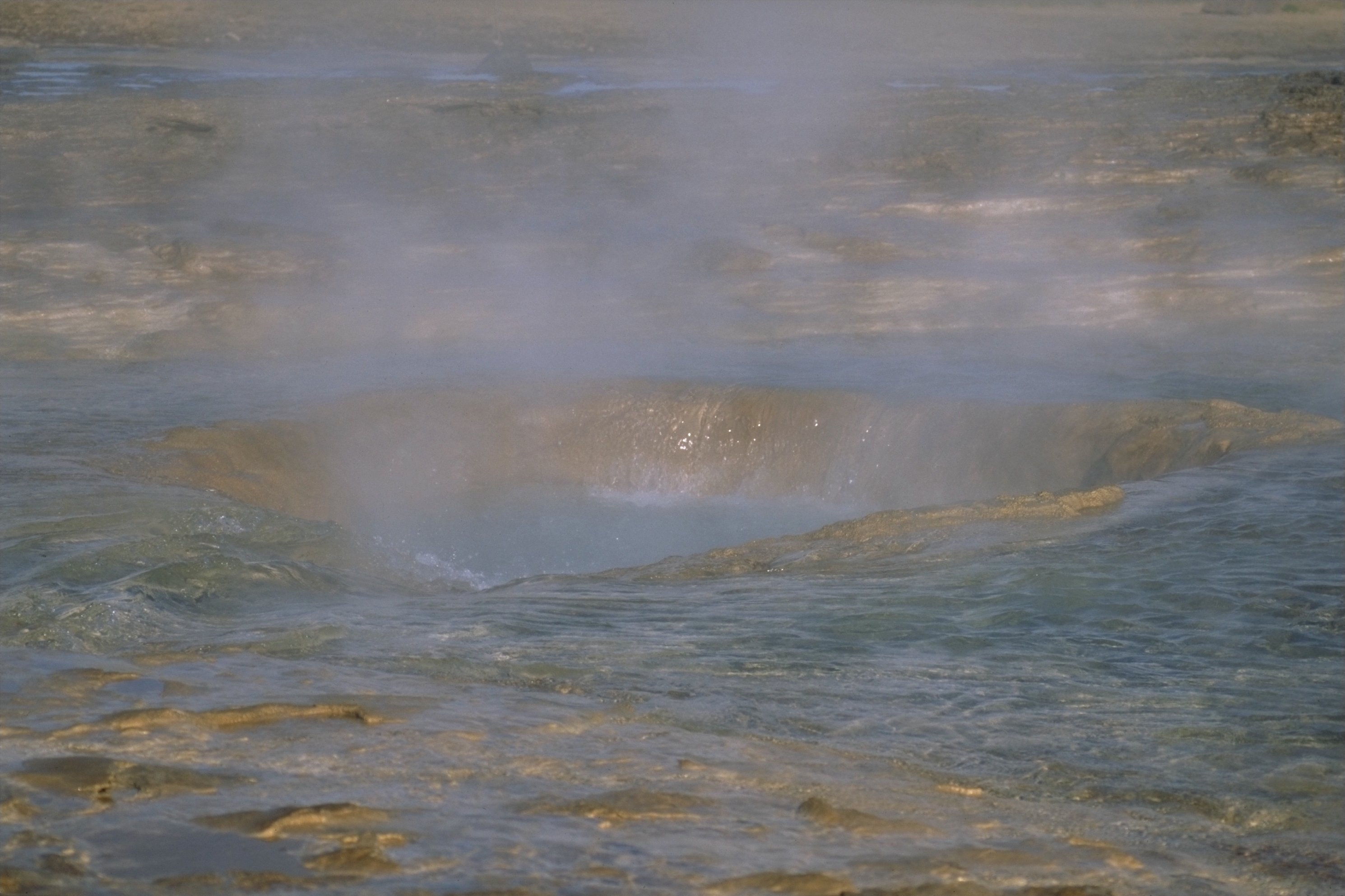 Pool of geysir Strokkur (eruption state 7) Photo was taken using the following technique: Film: Fuji Velvia Lens: 70-300 Filter: none Body: Minolta 600si Support: Gitzo Monotrek Image with Information in English Bild mit Informationen auf Deutsch